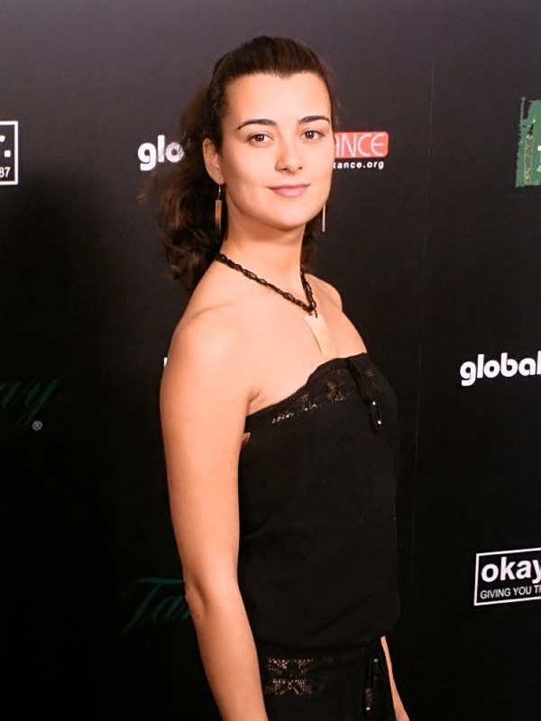 Chilean-American actress Cote de Pablo at the KeyClub, Los Angeles.